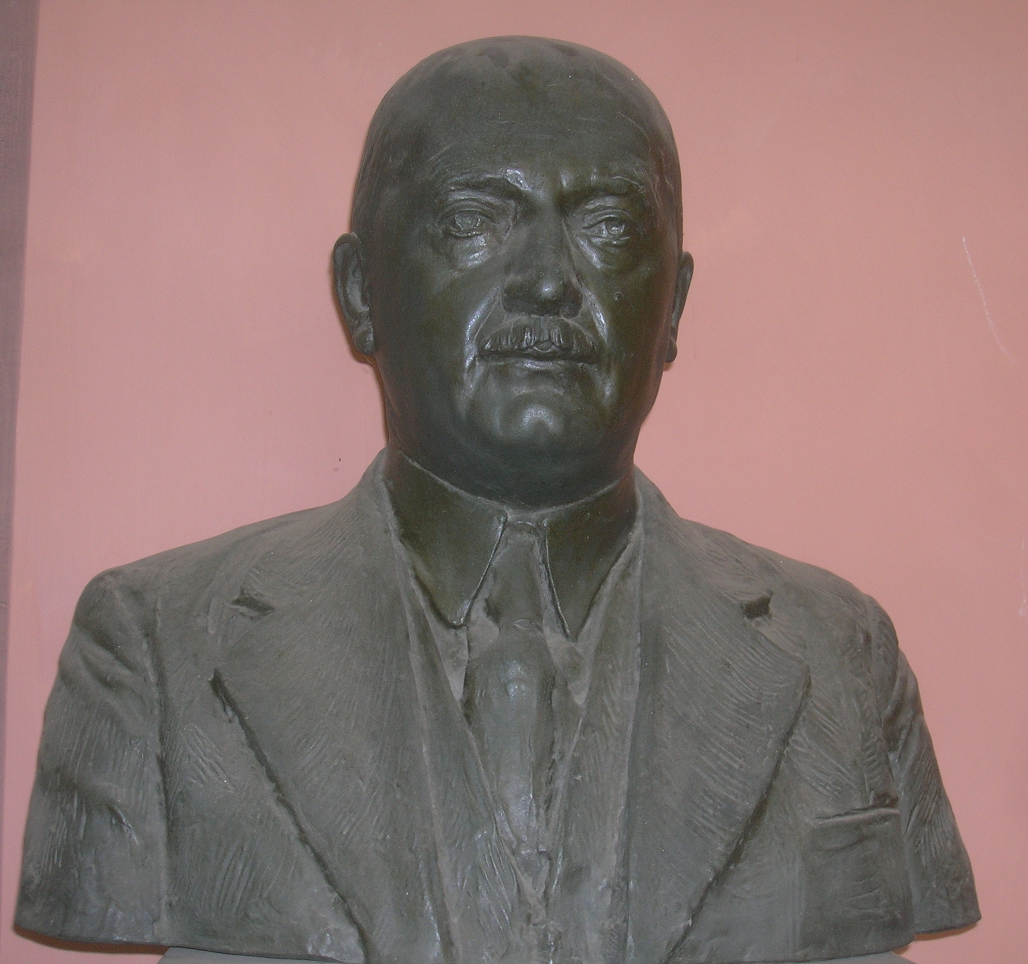 bust of Ernst Späth (14 May 1886 in Bärn–30 September 1946 in Zurich) in the Arkadenhof of the University of Vienna in Vienna